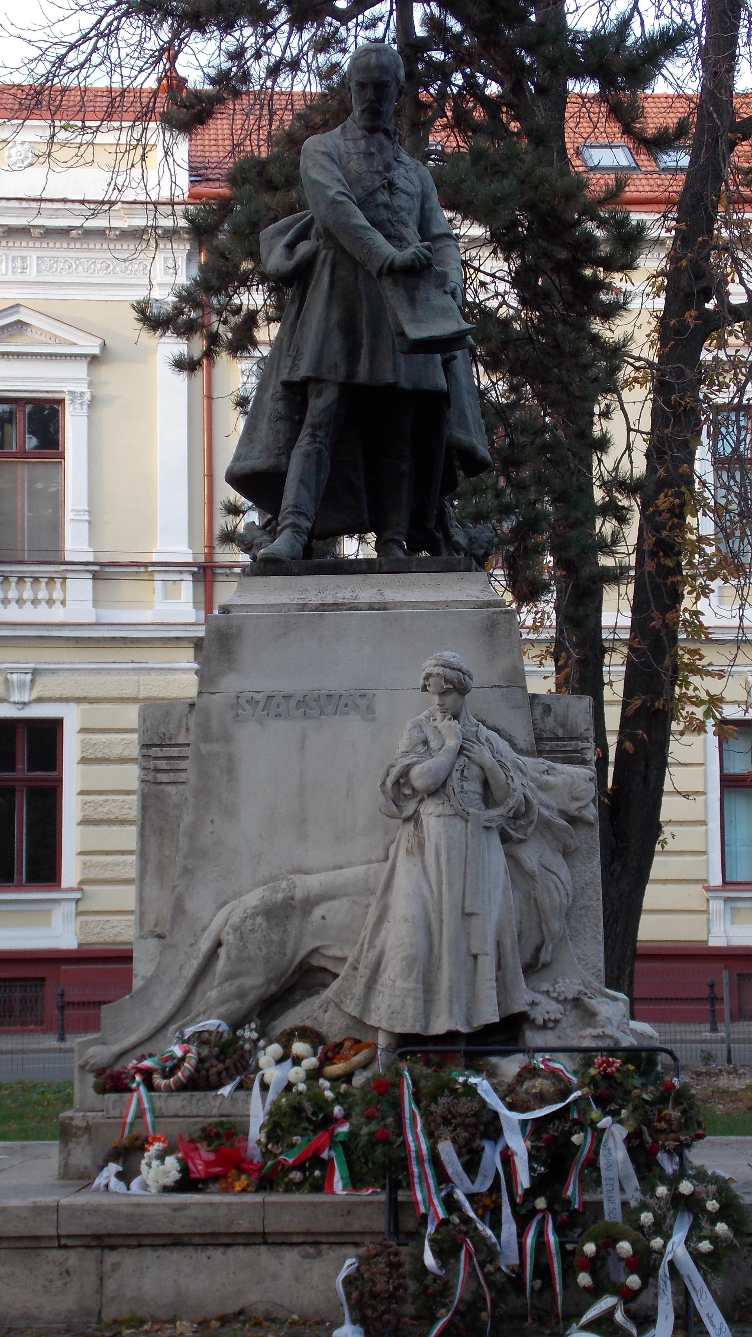 Statue of Szacsvay Imre- OradeaRomână: Statuia lui Szacsvay Imre- Oradea